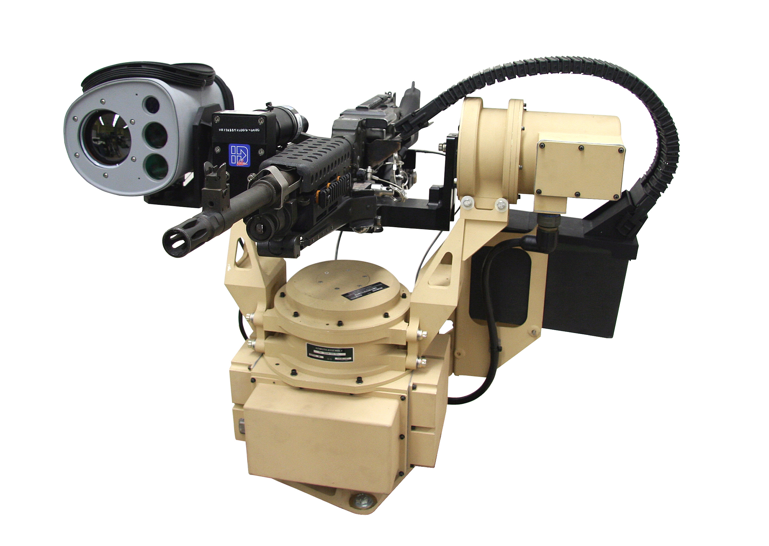 M240 Common Remotely Operated Weapon Station–Lightning